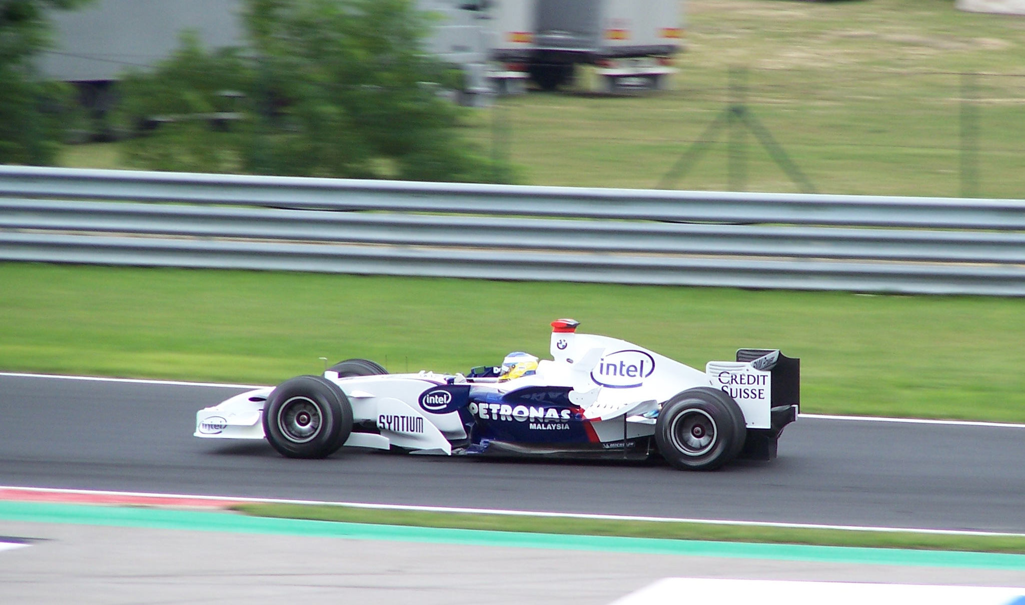 Nick Heidfeld during qualify session - Hungarian GP 2006, Hungaroring